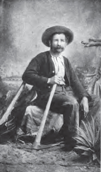 George Warren, American prospector in Bisbee, Arizona, who discovered the Queen Creek copper deposits.